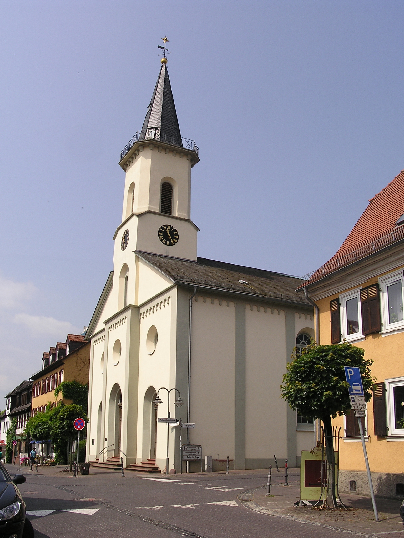 Protestant church in the Hugenottenstraße in Friedrichsdorf